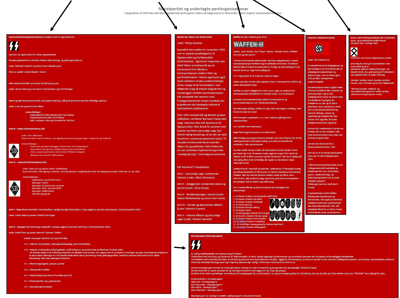 The National Socialist German Workers' Party and it's associated organizations.